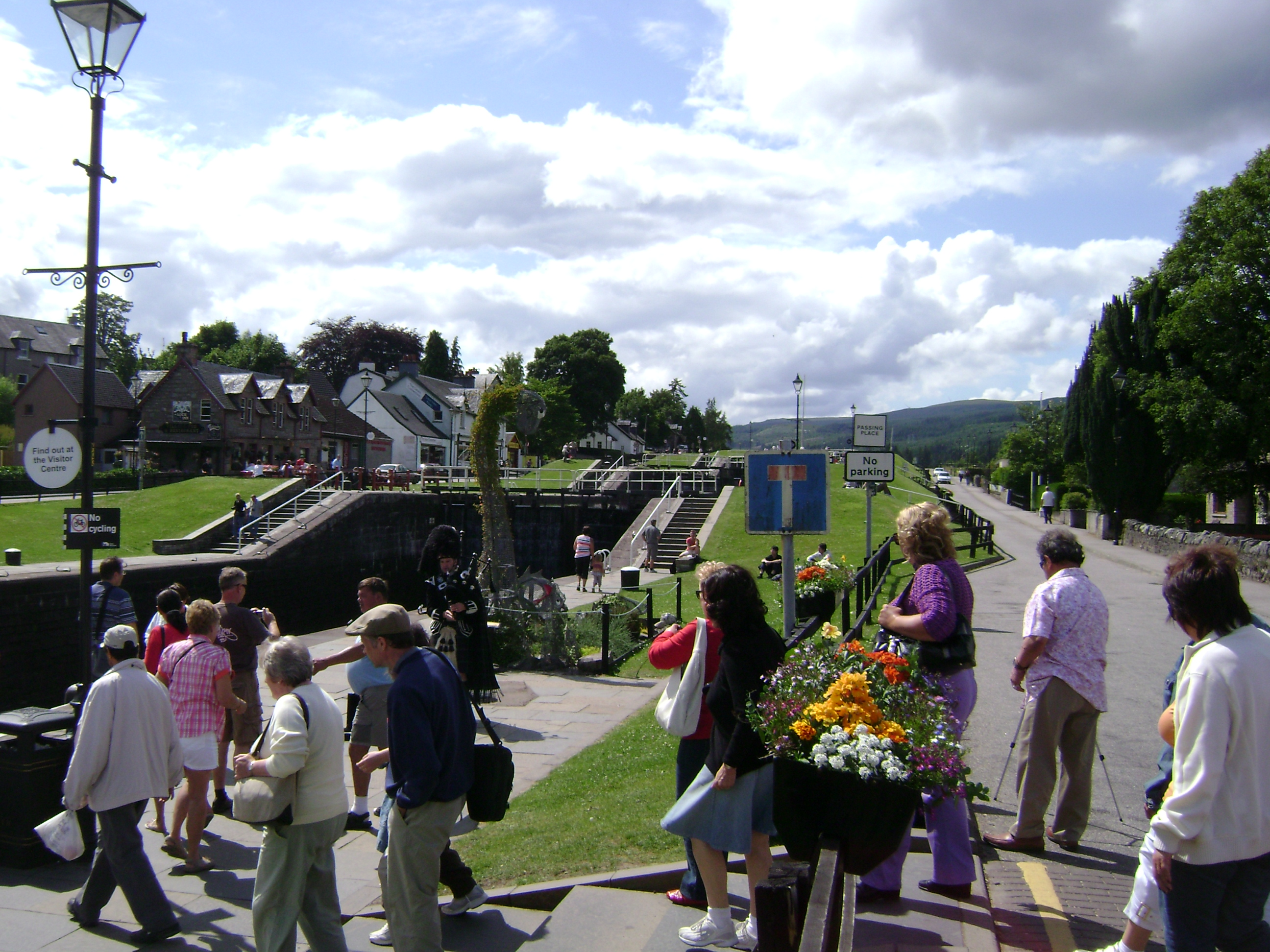 Scotland caledonian canal. Fort Augustus